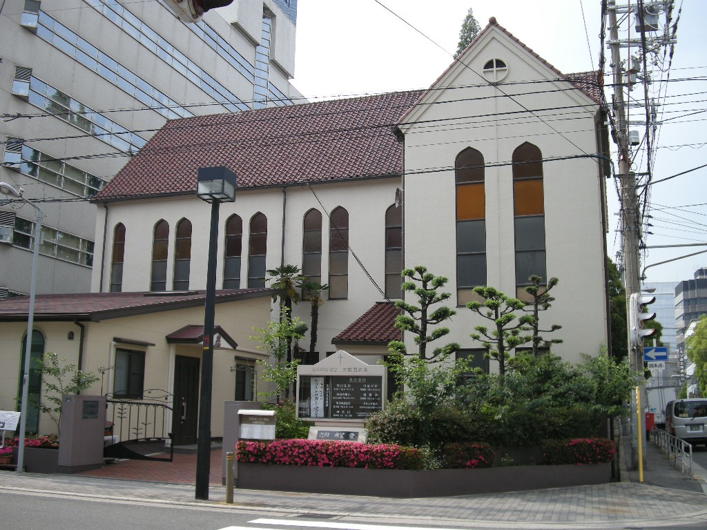 Osaka Nishi Church, Church of Christ in Japan, Osaka, Japan